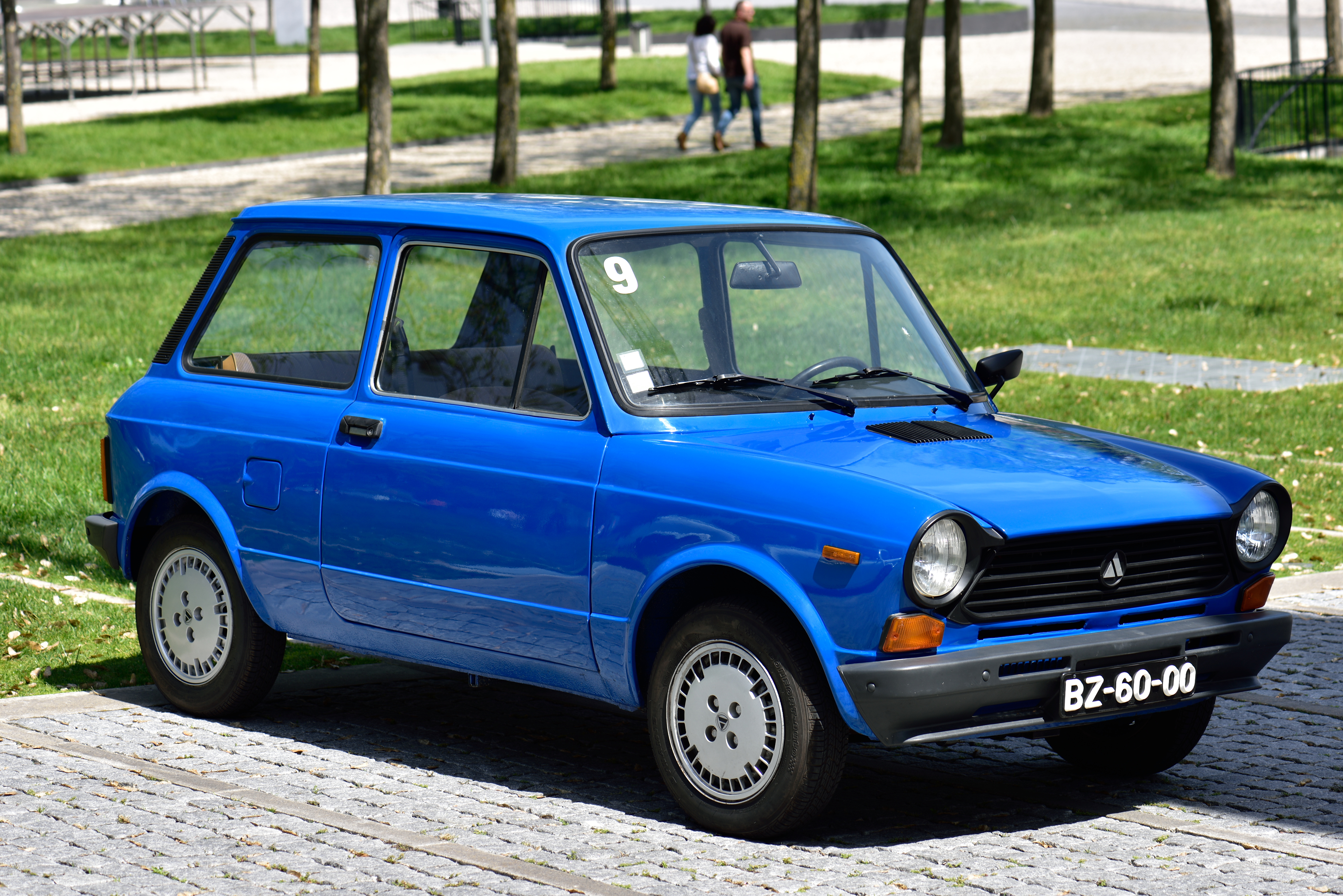 1977-1979 Autobianchi A112 (fourth series) with more modern wheel covers at the 2015 Castelo Branco Classic Auto meet.